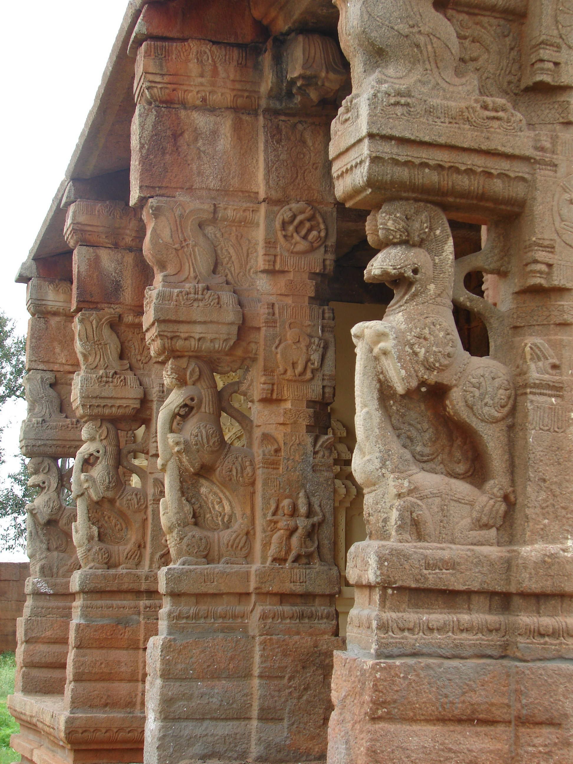 This photograph were taken at the Someshwara temple in Magadi, Ramanagara district, Karnataka state, India. The temple was built by Mummadi Kempavira Gowda around 1712 A.D.